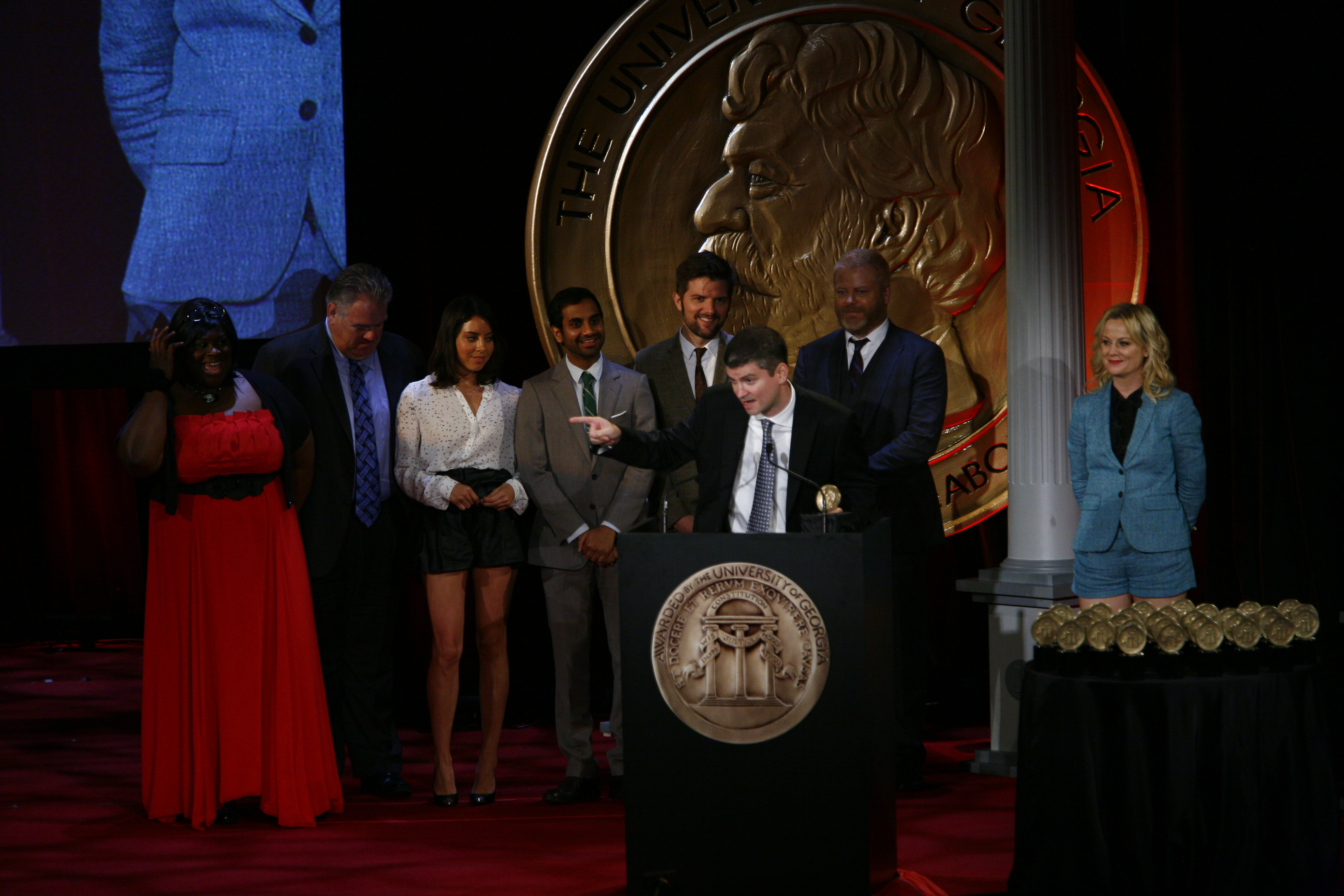 PHOTO CREDIT: ANDERS KRUSBERG / PEABODY AWARDS Mike Schur accepts the Peabody for "Parks and Recreation." He is joined on stage by Retta, Jim O'Heir, Aubrey Plaza, Aziz Ansari, Adam Scott, Nick Offerman and Amy Poehler 71st Annual Peabody Awards Luncheon Waldorf-Astoria Hotel May 21, 2012